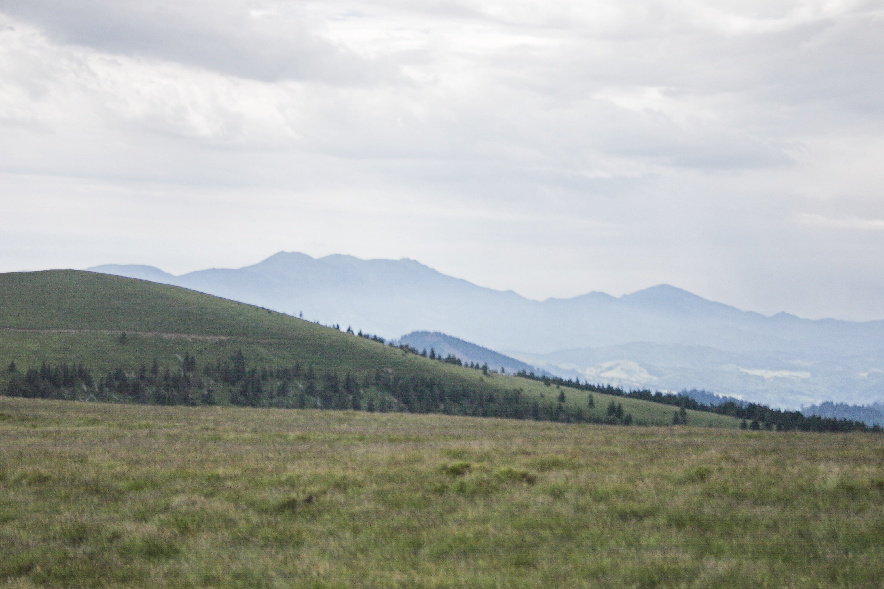 Munţii Ţibleş from Pietrosul Rodnei Massif.